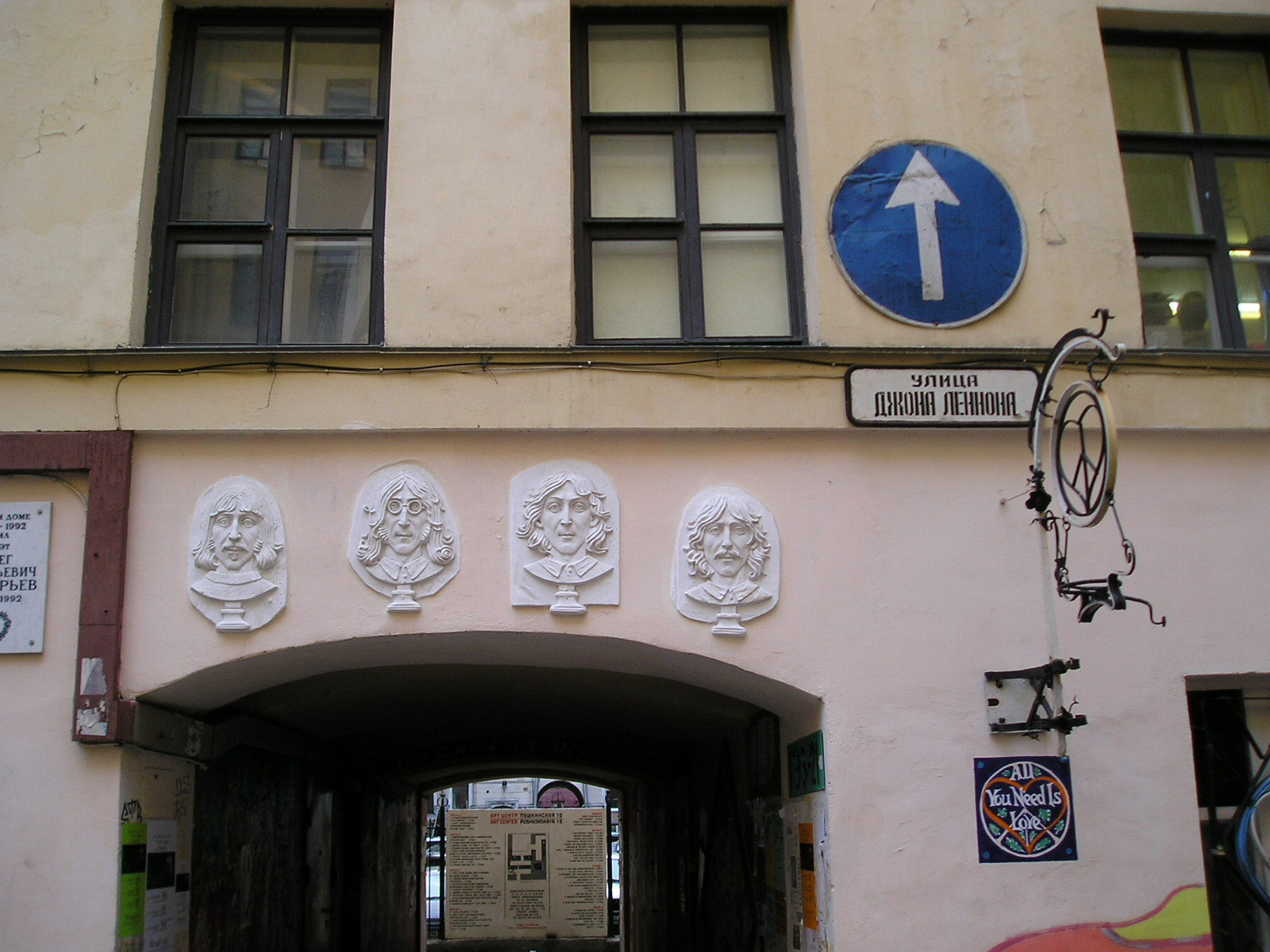 «John Lennon str.» - fake street information, set on the wall of one of the courtyards in Saint-Petersburg, Russia, nearby one of the famous Spb. artists squatting